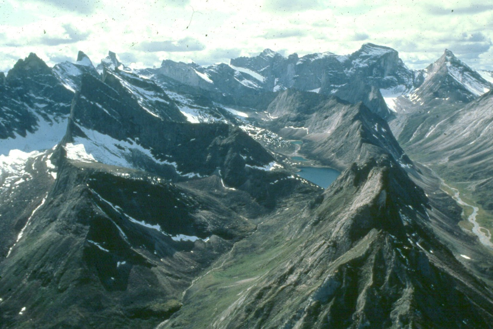 Arregetch Peaks, Gates of the Arctic Wilderness, Alaska